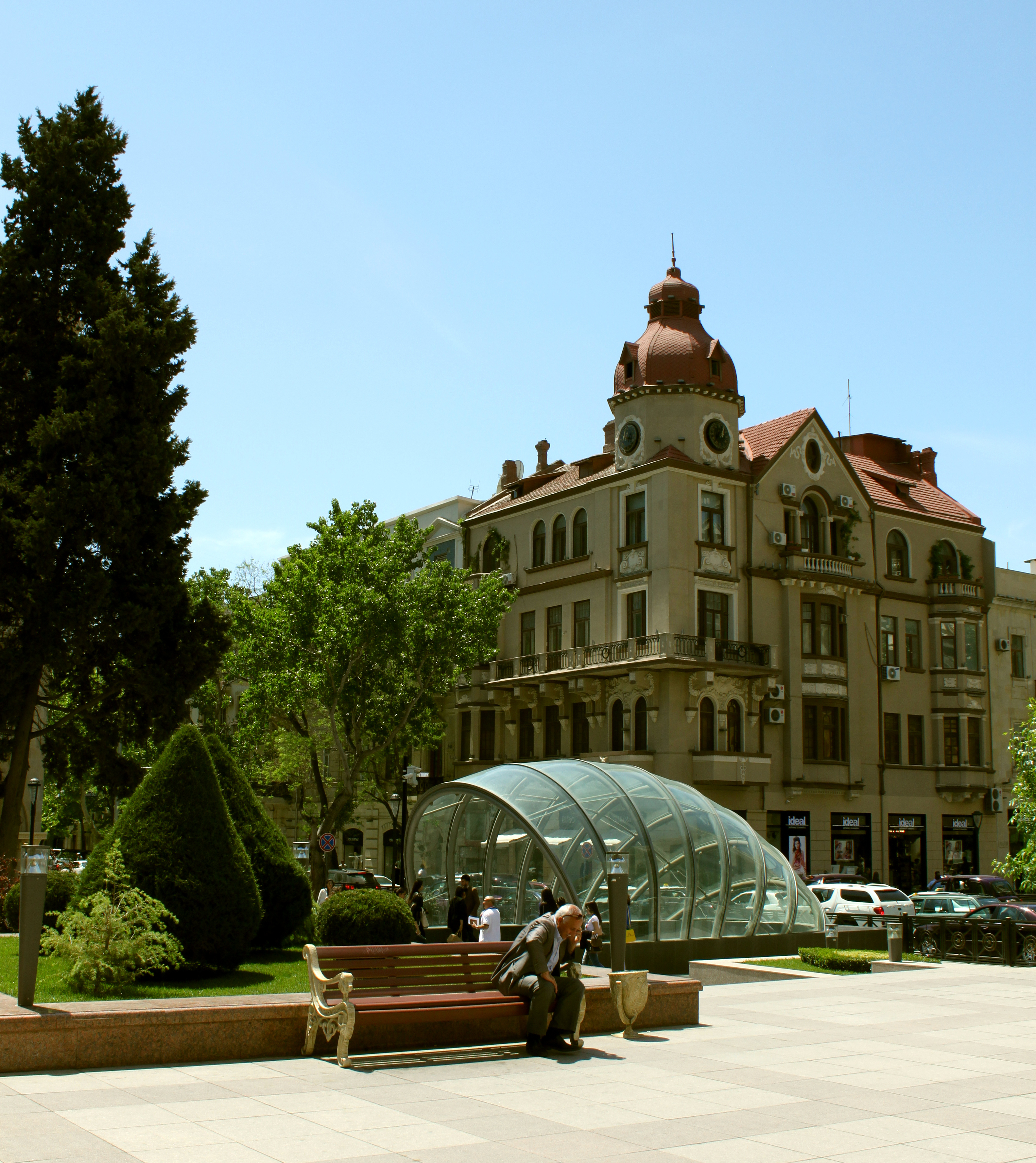 Landaus house